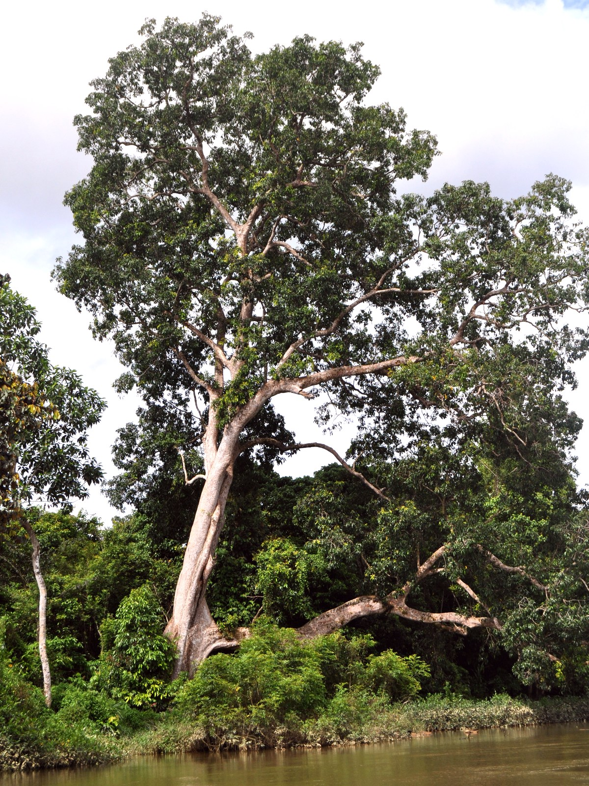 Gluta renghas, habits. At Pesaguan Riverbank, Ketapang, West Kalimantan, Indonesia.